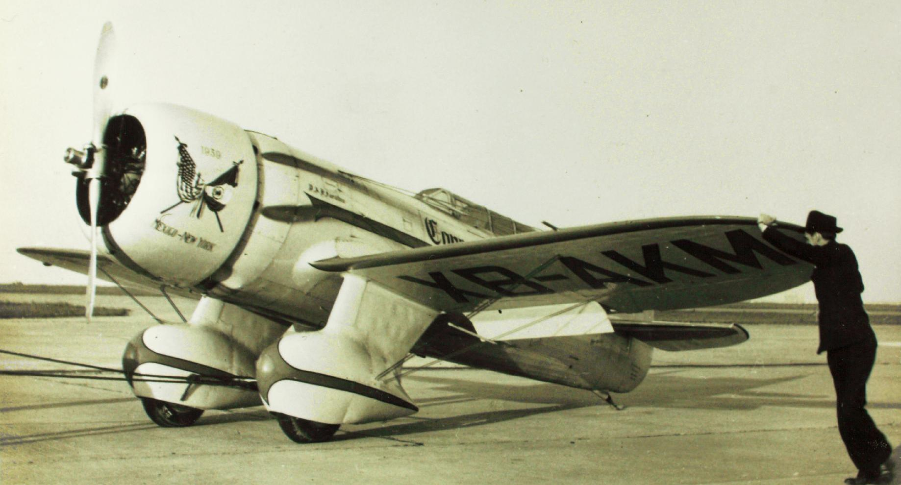 Catalog #: 01_00091524 Title: Gee Bee, Q.E.D. Corporation Name: Granville Brothers (Gee Bee) Designation: Q.E.D. Additional Information: USA As flown by the Mexican air hero, Francisco Sarabia. Repository: San Diego Air and Space Museum Archive